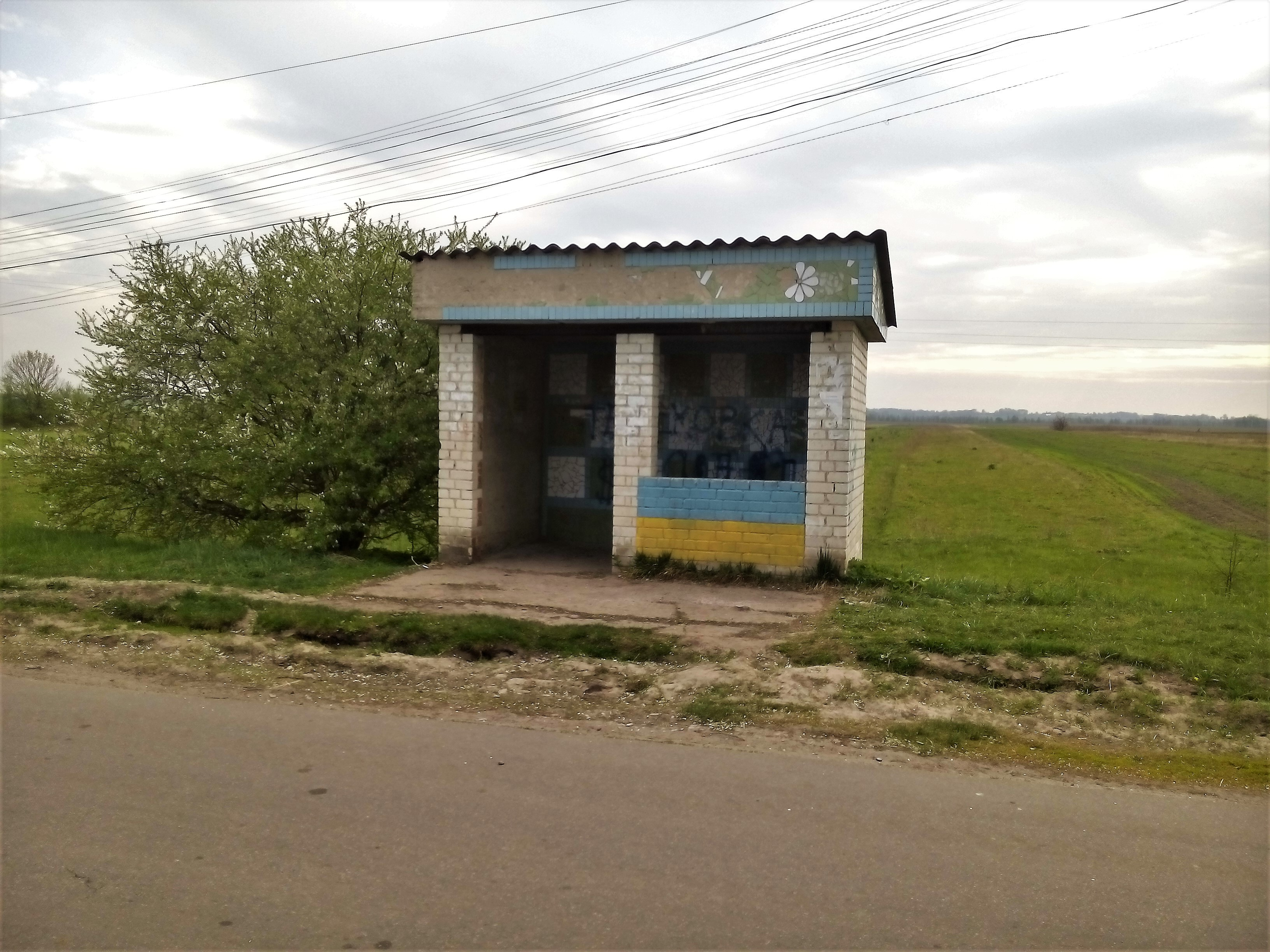 v.Terehivka, Chernihiv Raion, Chernihiv Oblast, Ukraine